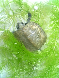 A CB baby of mauremys japonica, turtle.